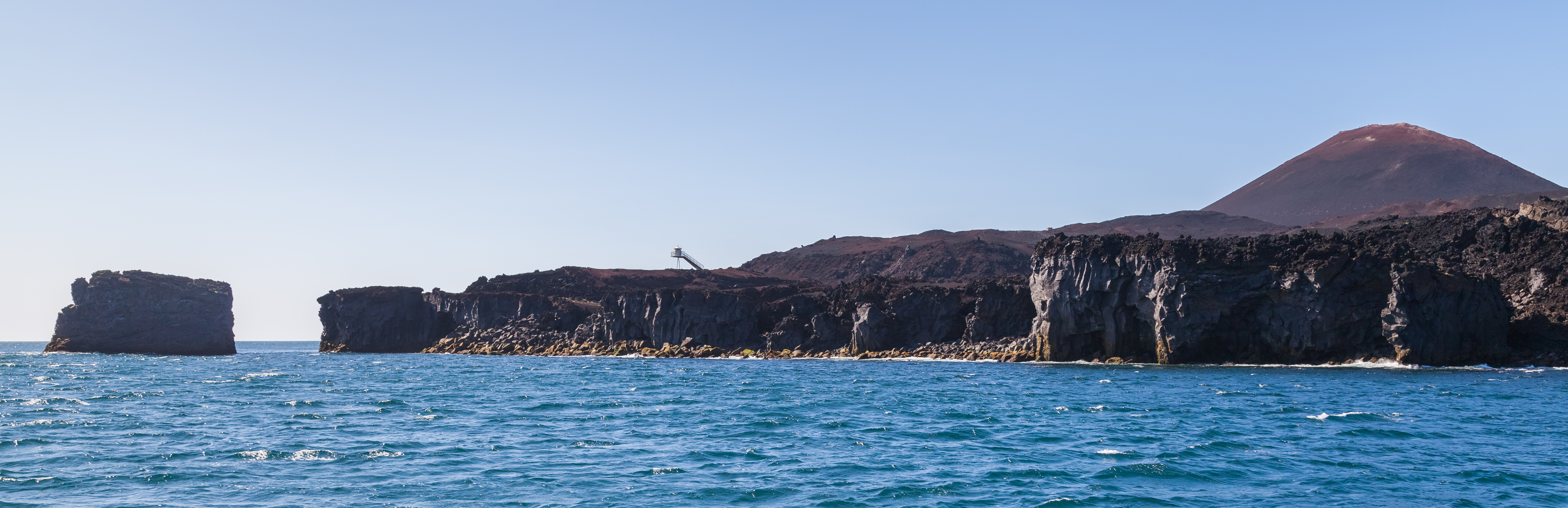 Urða lighthouse, Heimaey, Westman Islands, Suðurland, Iceland